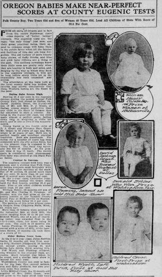 Shows a few of the children who went to the county eugenic tests and got near perfect scores.